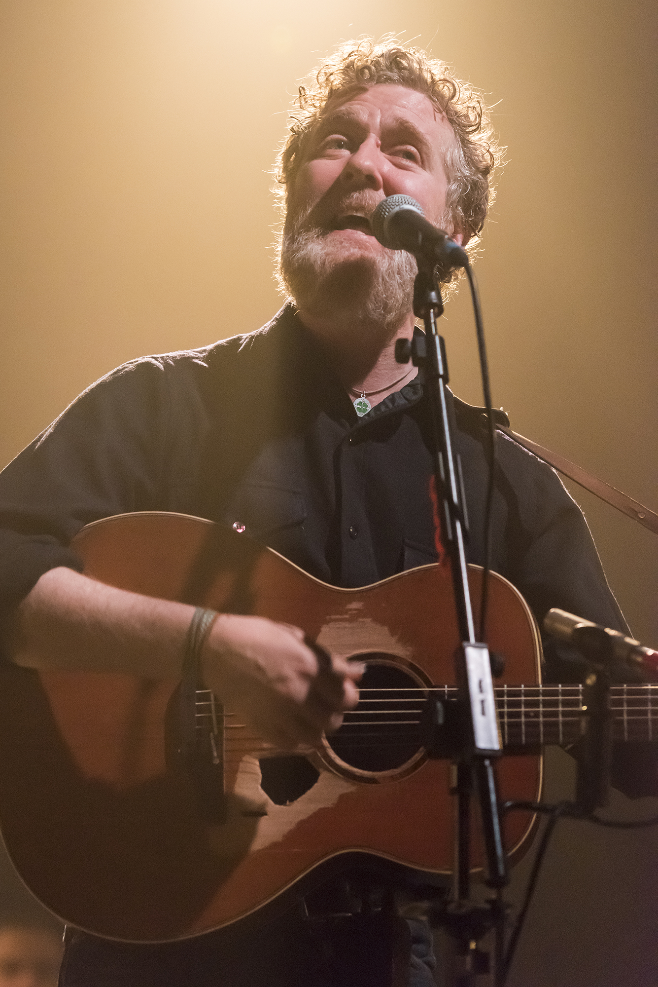 Irish musician Glen Hansard at 24th February 2016 in Offenbach (Germany).